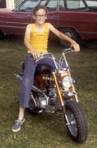 Hell's Littlest Angel - Platte City, Missouri Honda DAX ST70 @ 1972